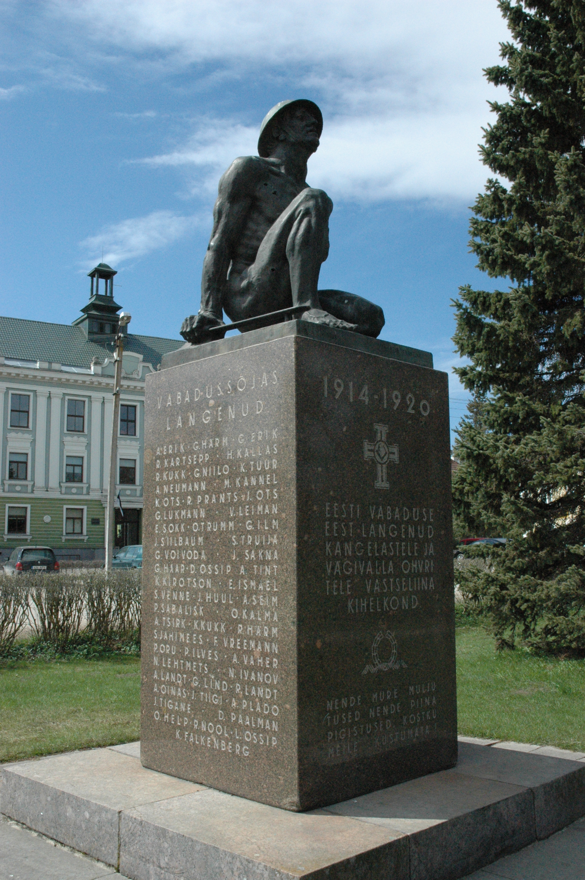 Memorial in Vastseliina, Estonia.